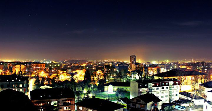 Brcko at night